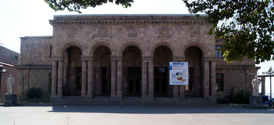 Artashat Theatre after Amo Kharazyan